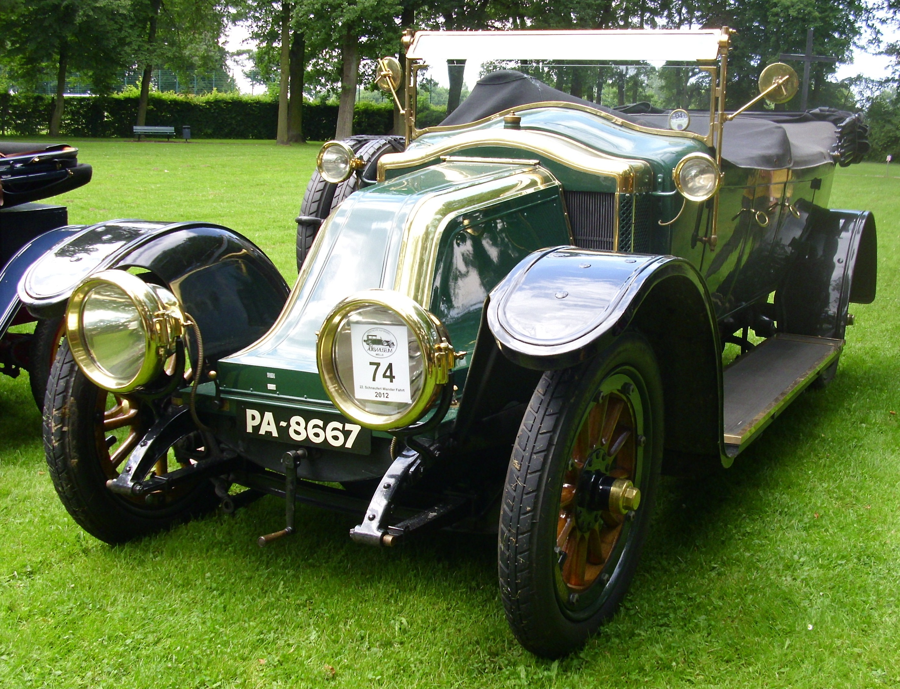 Renault Type CE Torpedo von Regent Carriage Company 1912